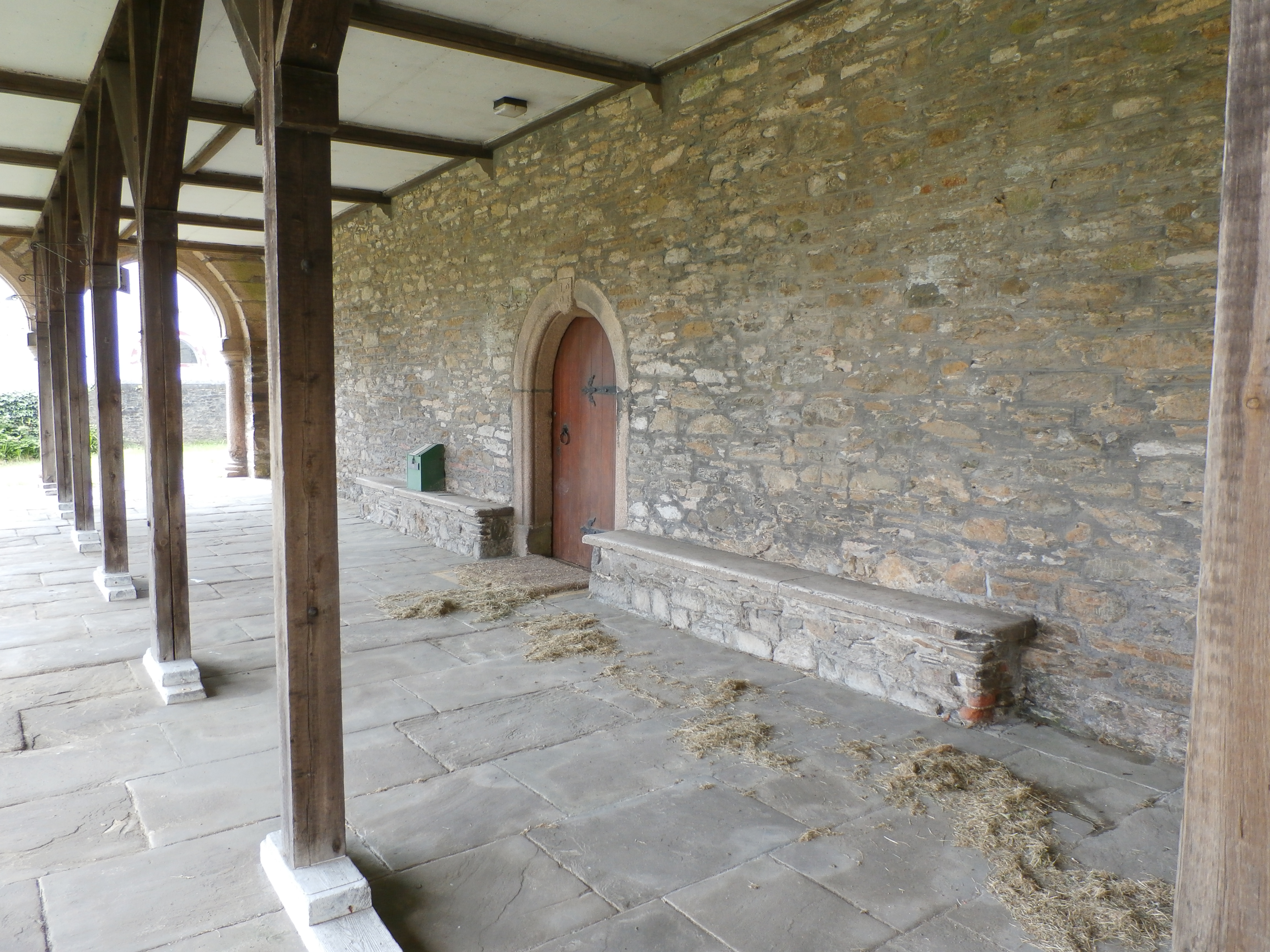 Under the colonnade of the Old Grammar School, Plympton, founded in 1658 by the lawyer Elize Hele (1560–1635) of Fardel in the parish of Cornwood, and of Parke, Bovey Tracey, both in Devon. The building dates from 1664. Amongst the pupils was Sir Joshua Reynolds (1723-1792) the painter, whose father was headmaster.